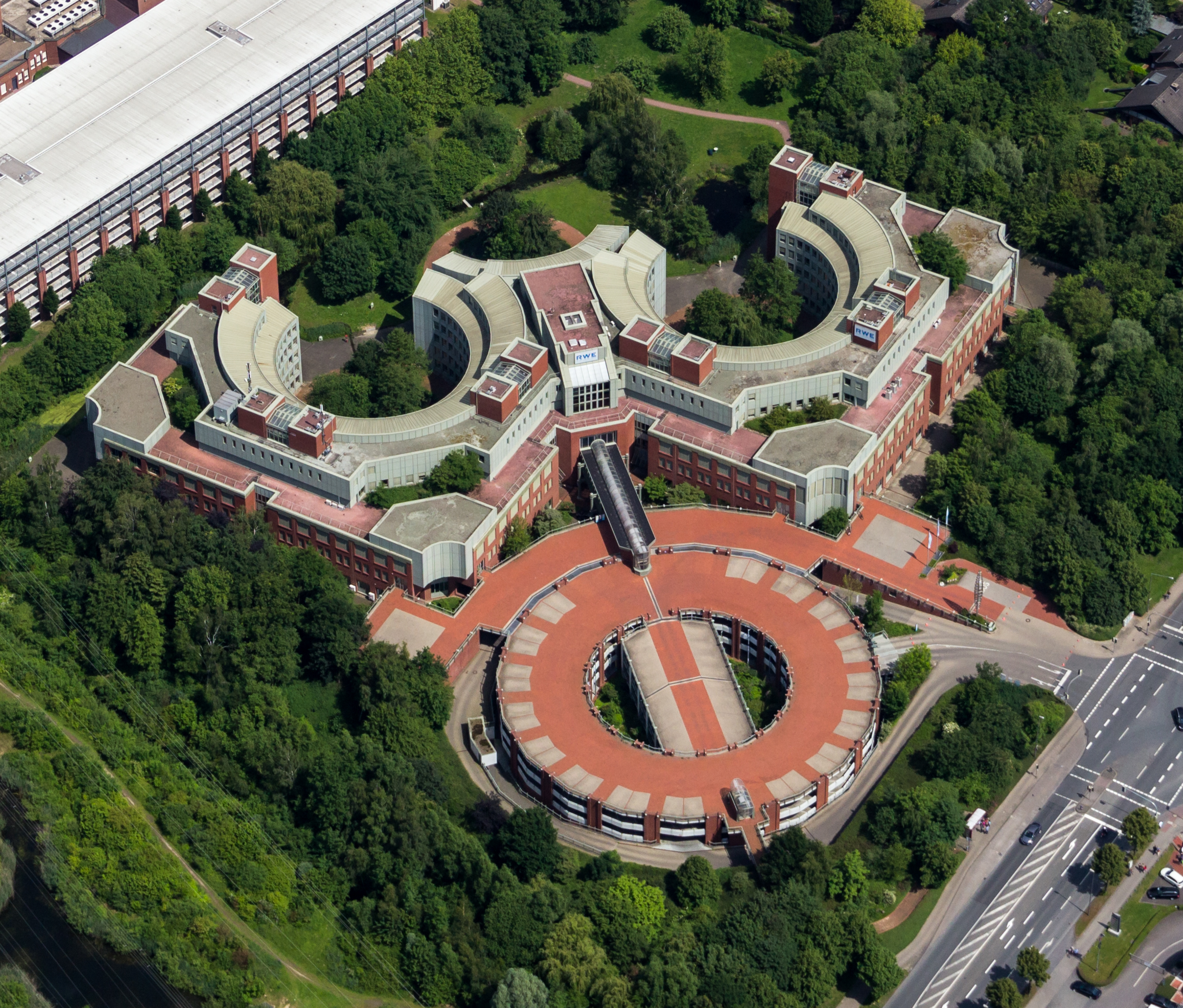 RWE, Münster, North Rhine-Westphalia, Germany